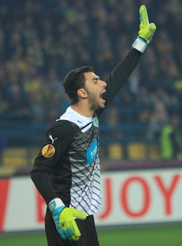 Rui Patrício